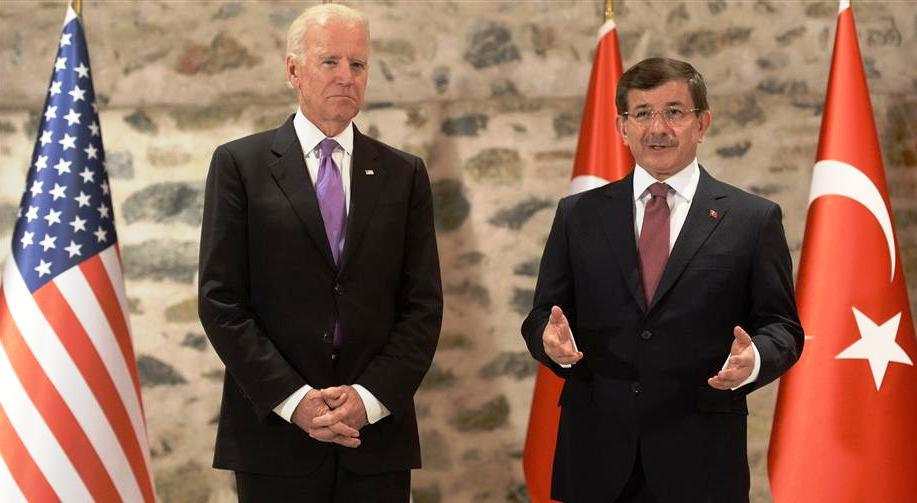 Joe Biden & Ahmet Davutoğlu